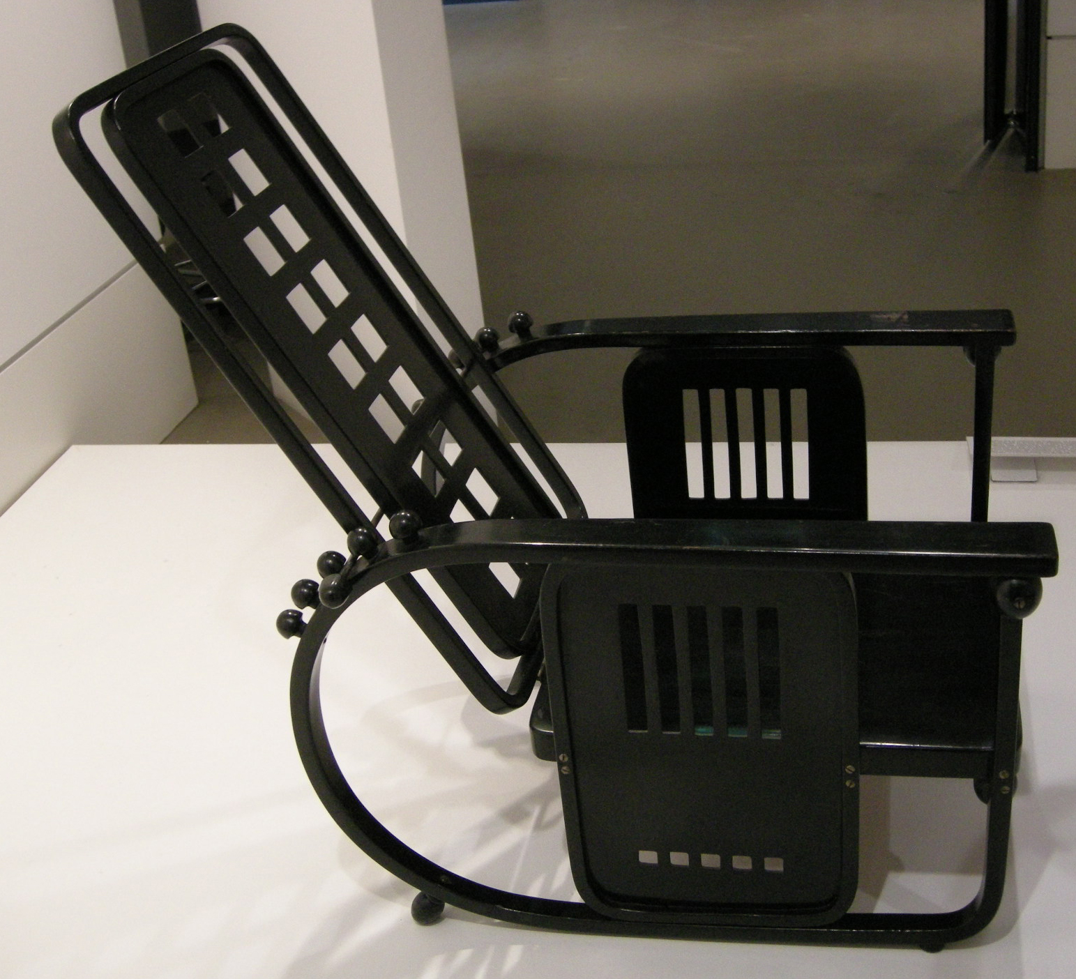 Sitzmachine adjustable-back chair. Design by Josef Hoffmann, created by Jacob & Josef Kohn in 1905. National Gallery of Victoria, Design section.